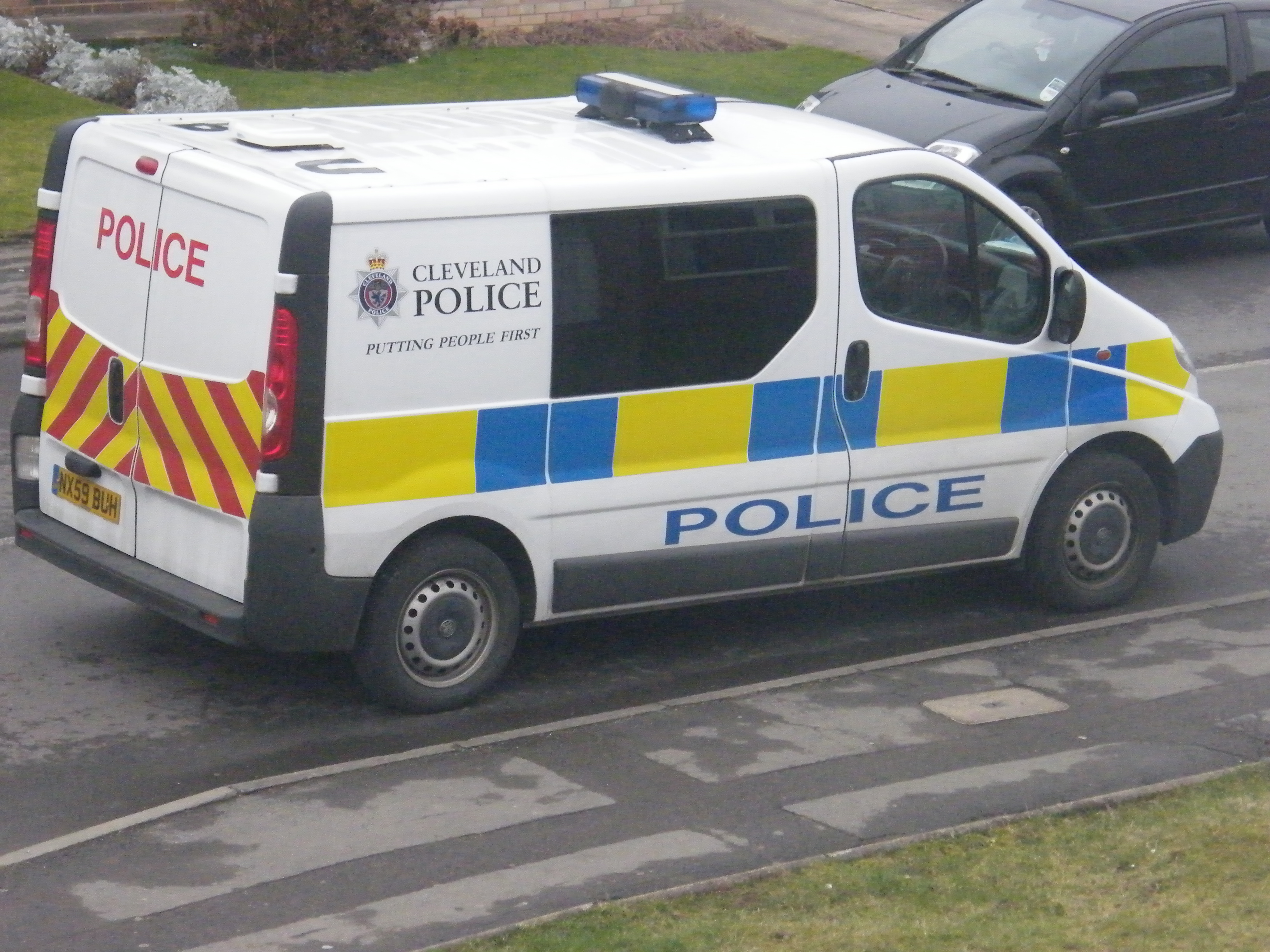 Seen in Stockton, not sure what the incident was that they where dealing with, however I will update if/when I find out more.